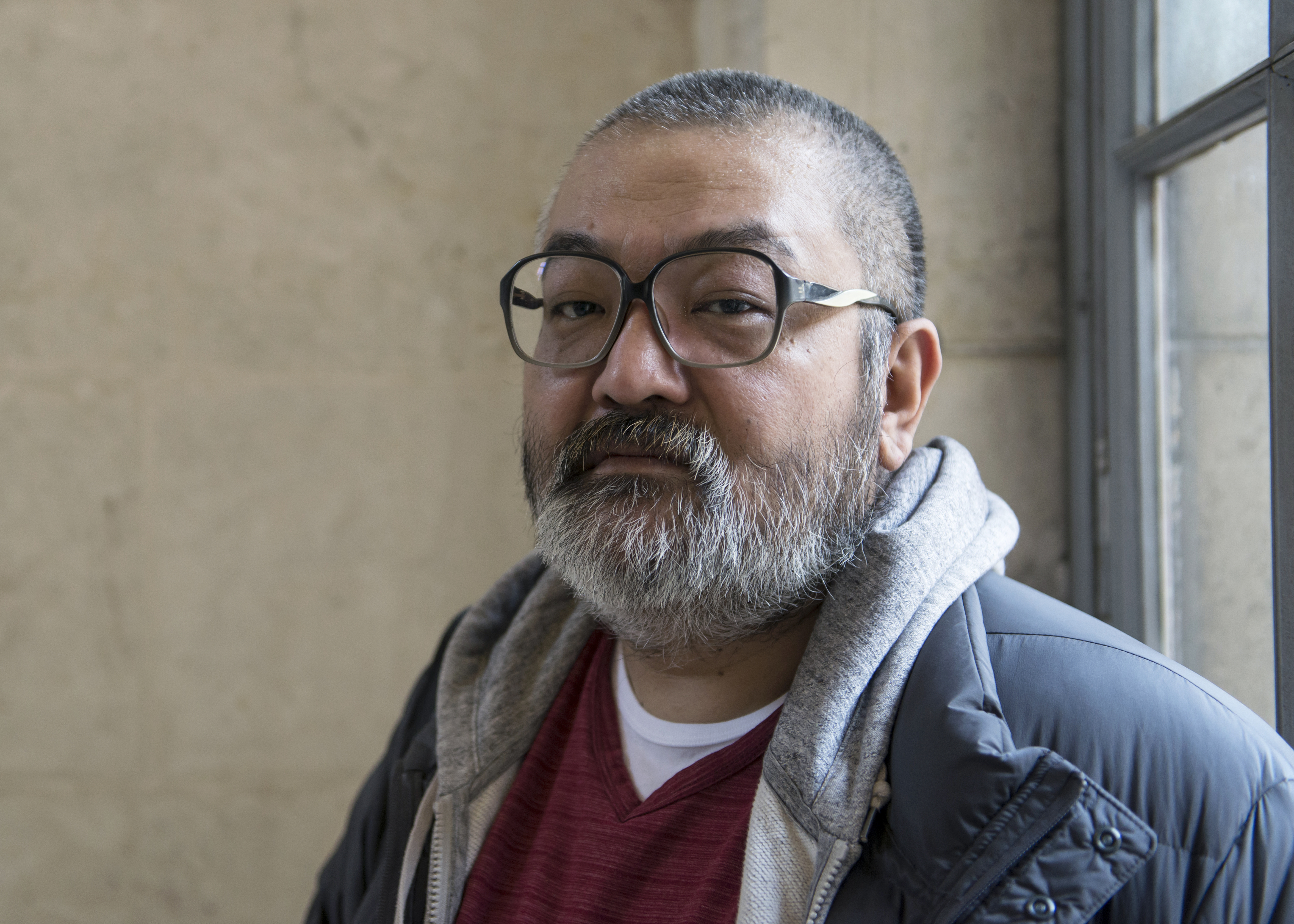 Mangaka Gengoroh Tagame at Angoulême International Comics Festival in 2017.